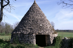 Dry stone hut located at Lalbenque, in the Lot département, France. Photo by Dominique Repérant.